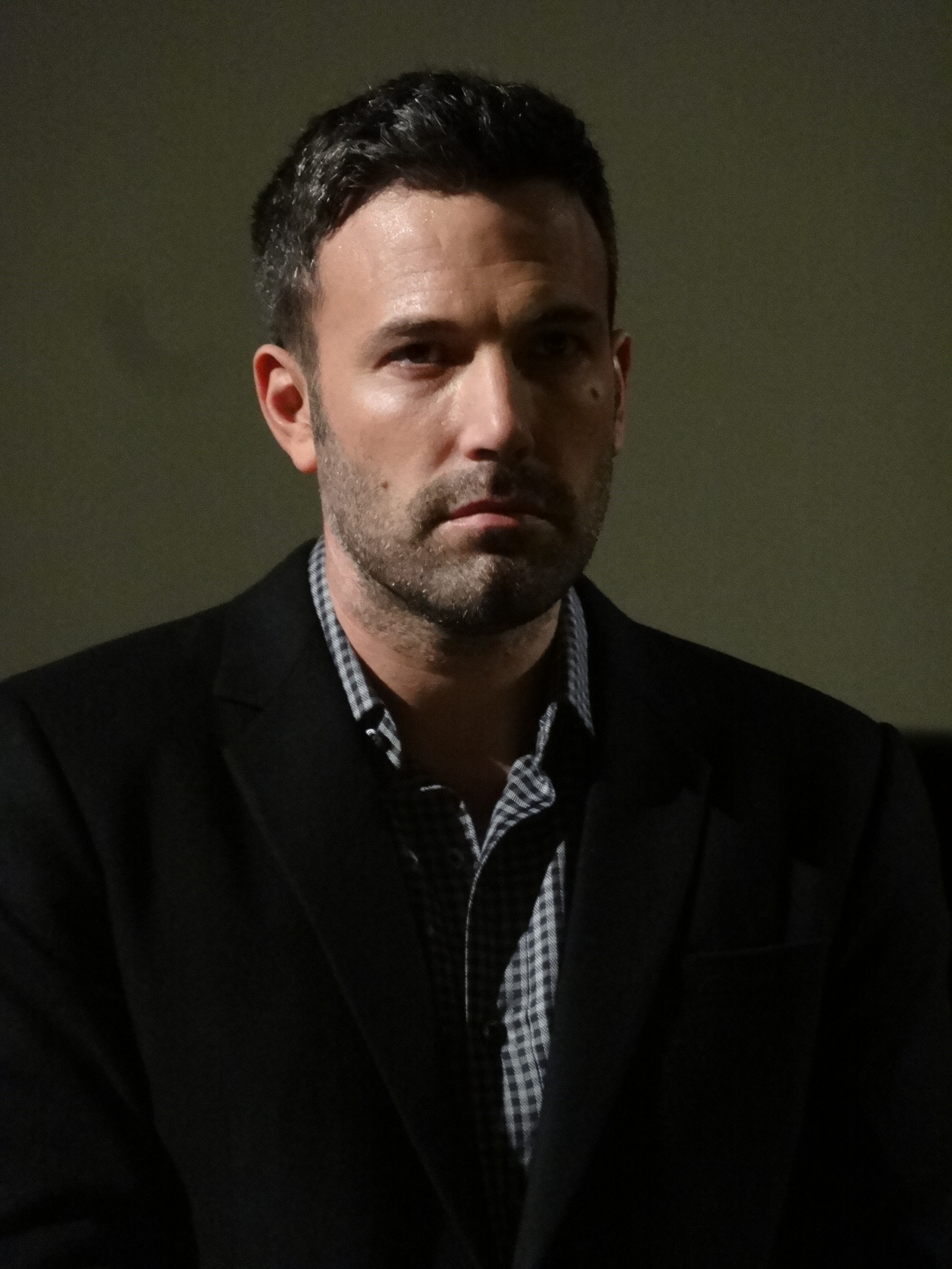 Ben Affleck Argo premiere in Paris.